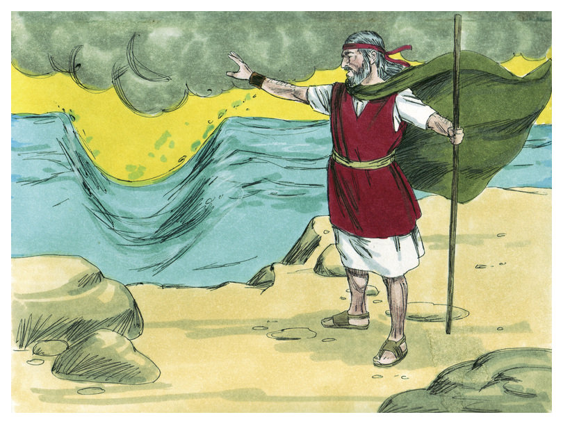 Biblical illustration of Book of Exodus Chapter 15